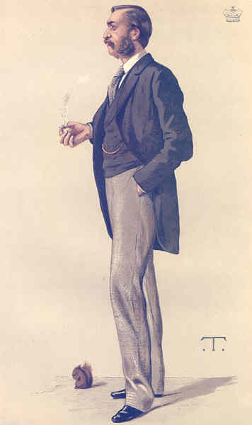 Caricature of Lord Walsingham. Caption read "a Naturalist".